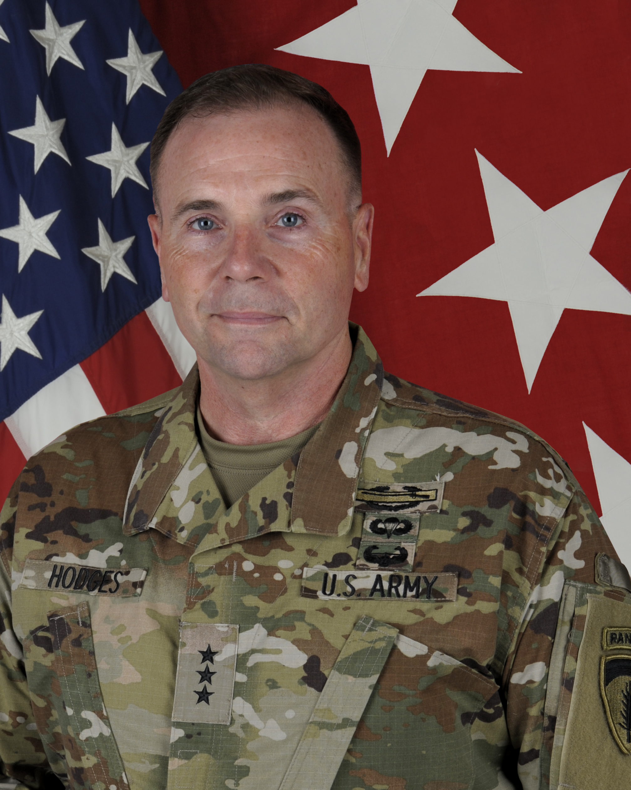 LTG Ben Hodges official portrait in OCP